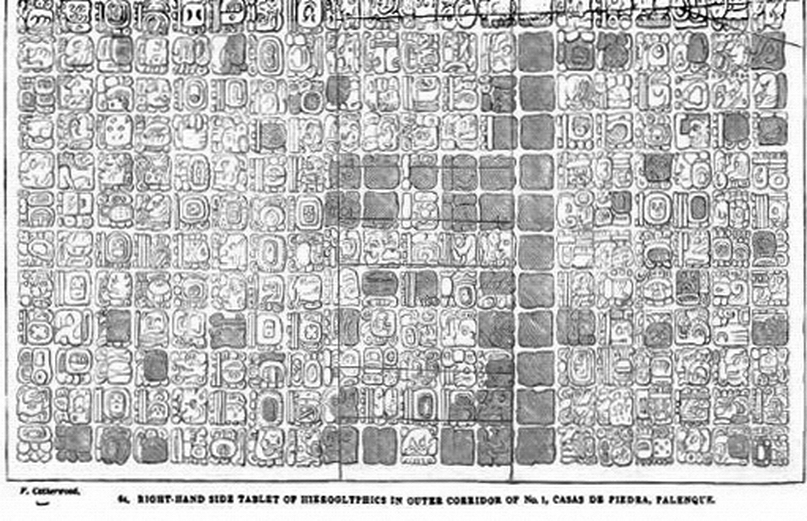 Image caption from Incidents of travel in Central America, Chiapas, and Yucatan, page 457.